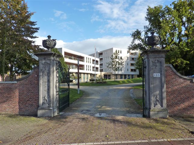 The entrance of Kennemeroord, Heemstede, the Netherlands.